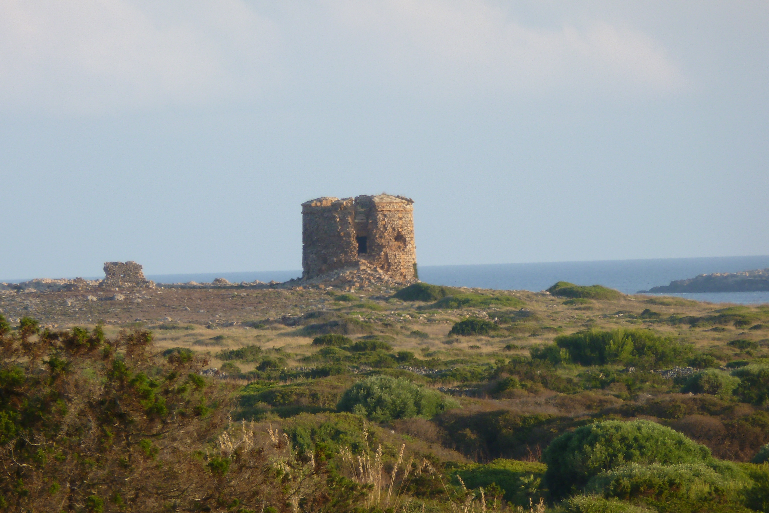 Martello Tower built by the english at Cap Cavalleria, Menorca, Spain.